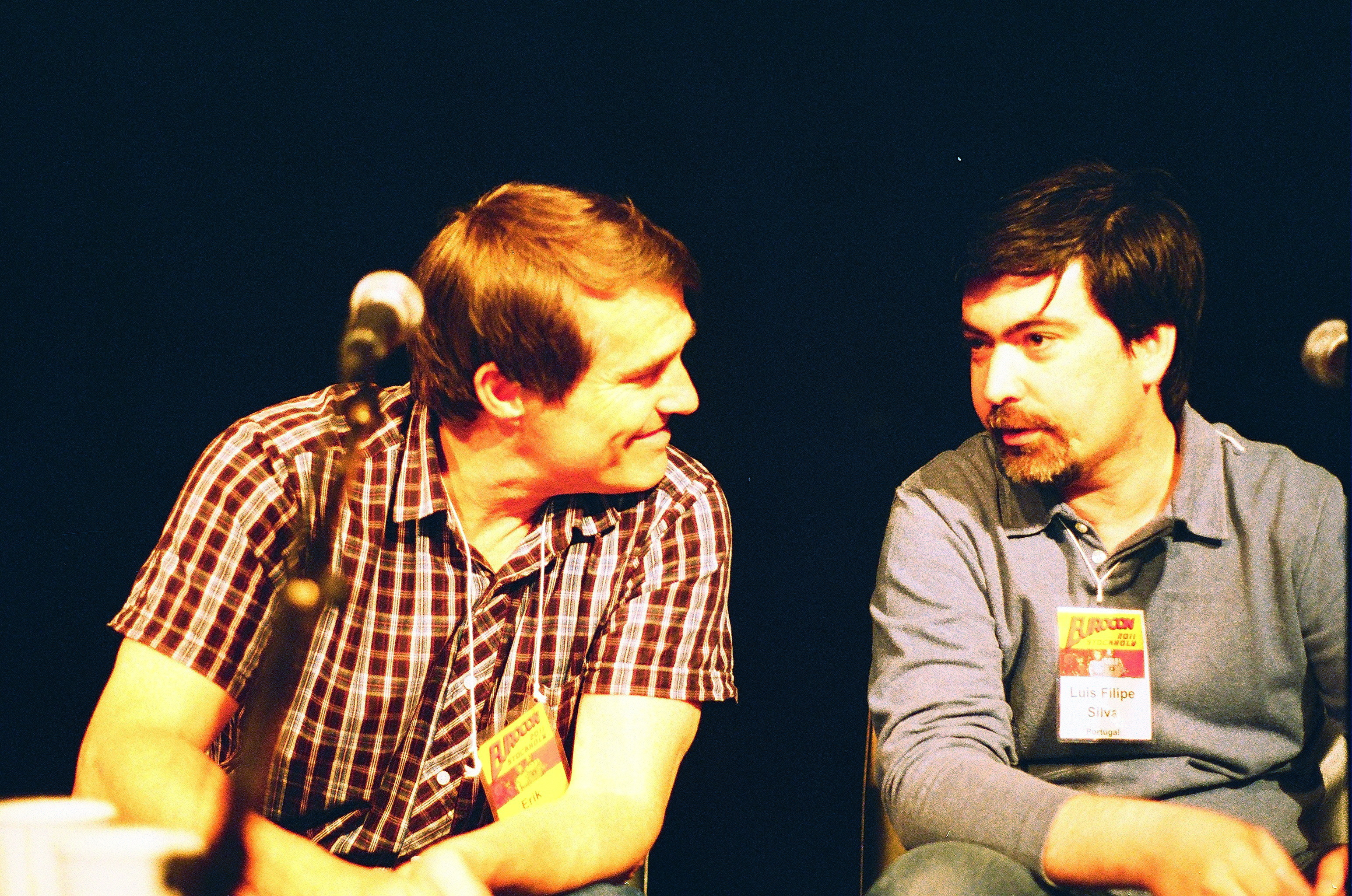 Swedish writer Erik Granström (left) and Portuges writer Luís Filipe Silva during Eurocon 2011 in Stockholm.